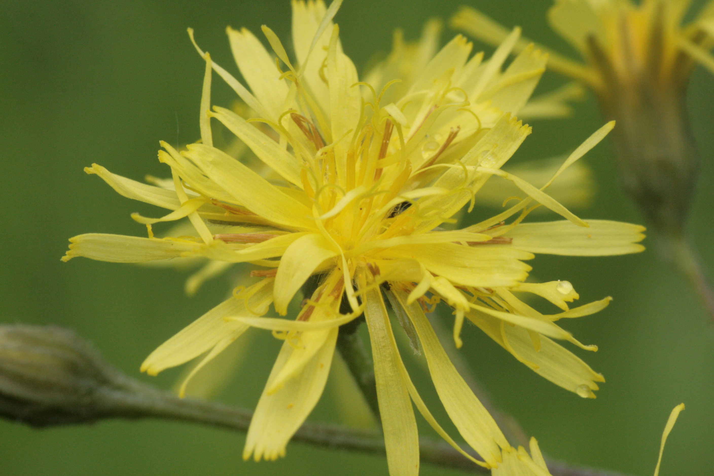 Crepis praemorsa